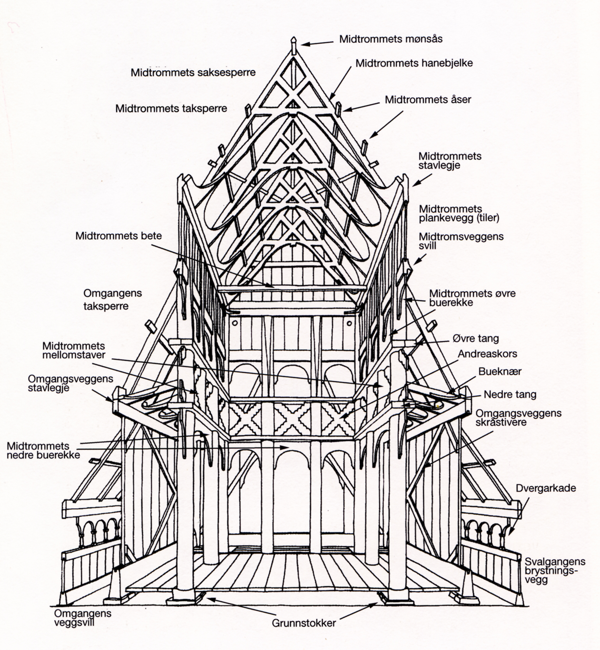 Construction drawing of Borgund stave church (stavkirke, stavkyrka) by architect Håkon Christie in 1974. Text in Norwegian.